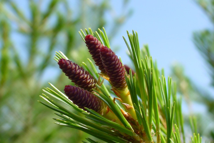 Pinus monticola young seed cones shortly after pollination